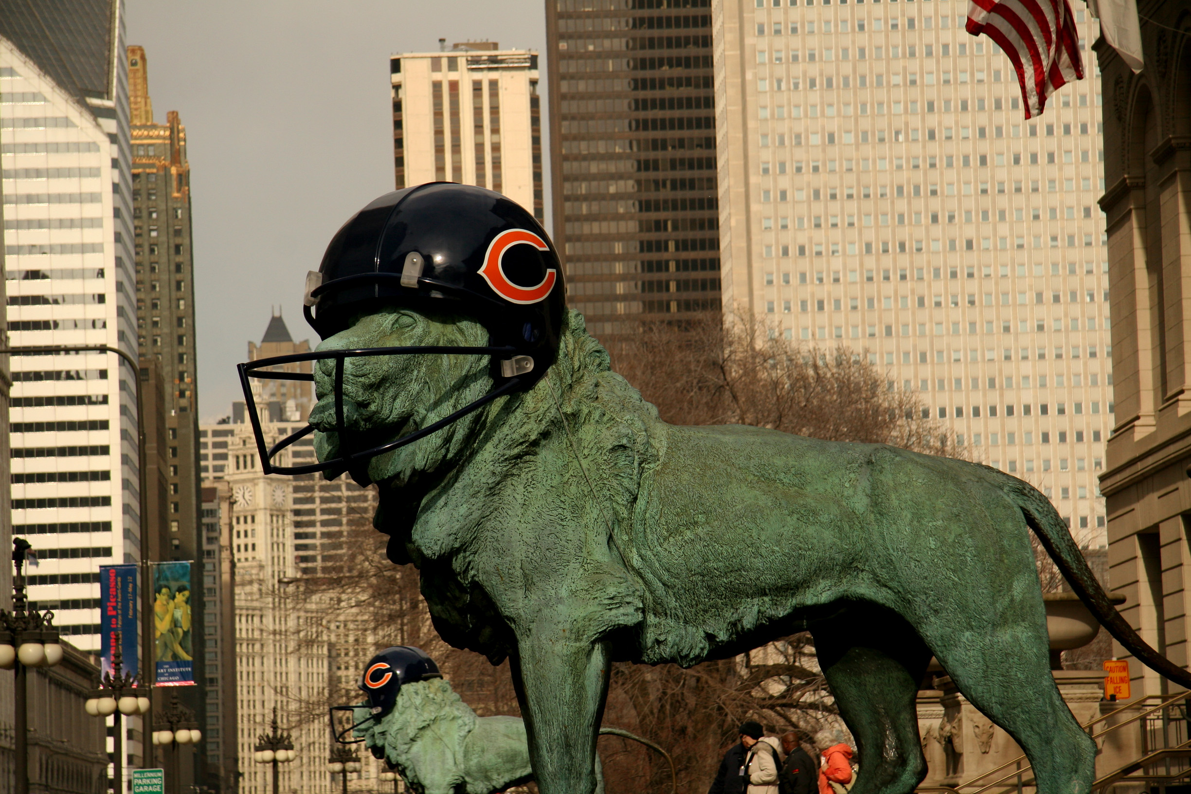 The Art Institute of Chicago's lions are decorated to show support for the Chicago Bears during the week of Super Bowl XLI. Photographer's description: It's Like Making A Trip To Mecca If You're A Bears Fan I was not surprised but man it was thick with people getting flicks. Everyone has to have their photos taken with the Lion statues. For those on the know they only do this when they go to the Super Bowl which only previously occurred in 1985. When they made the helmets this time, they made them a little small plus it was really cold so they did not bend and they had to be redone.